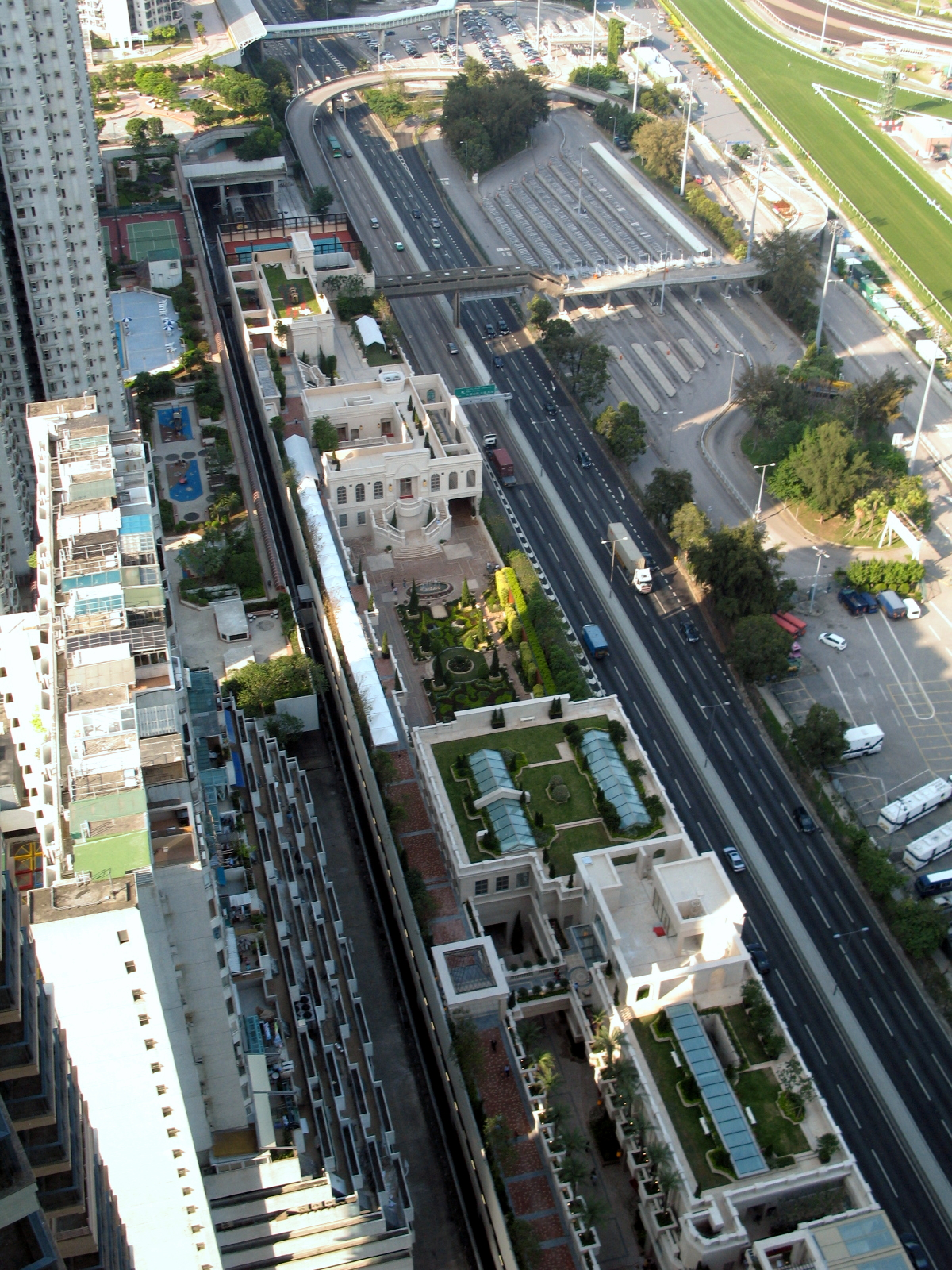 The Parazzo Derby Clubhouse 御龍山